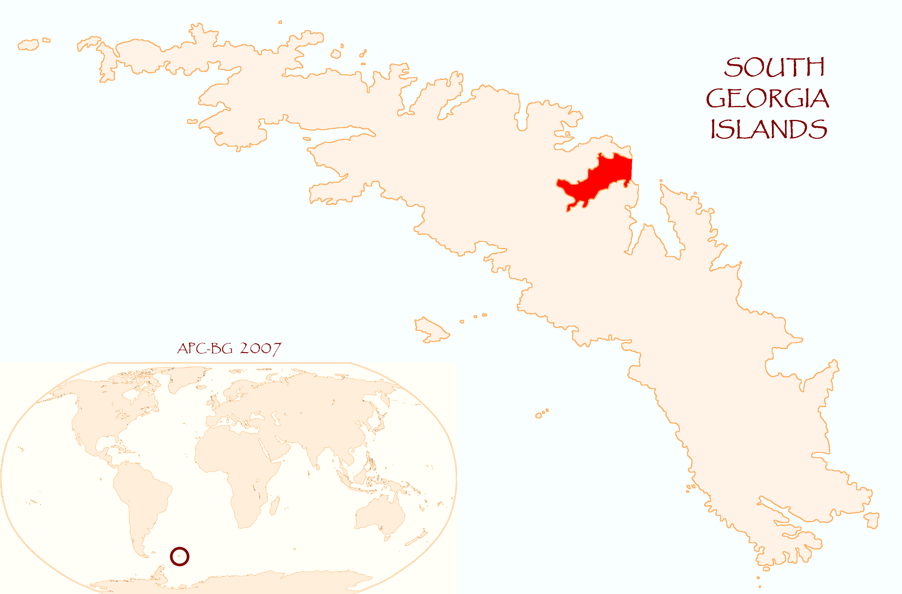 Location map for Cumberland West Bay, South Georgia published by the author Apcbg.